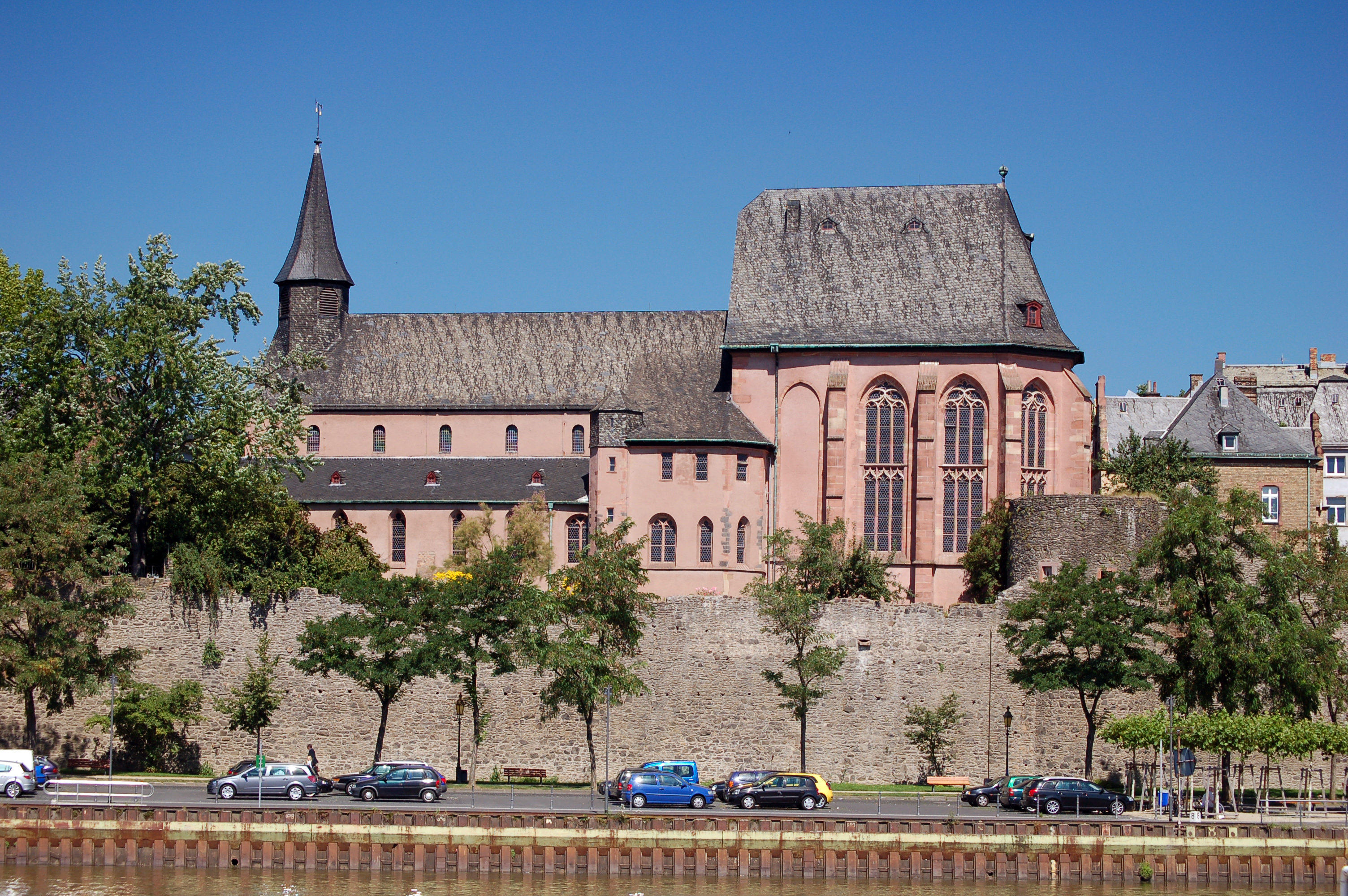 South facade of St. Justin's in Frankfurt-Höchst with part of the defensive wall. On the left side the Carolingian basilica from 830 and on the right side the attached gothic choir from 1442.